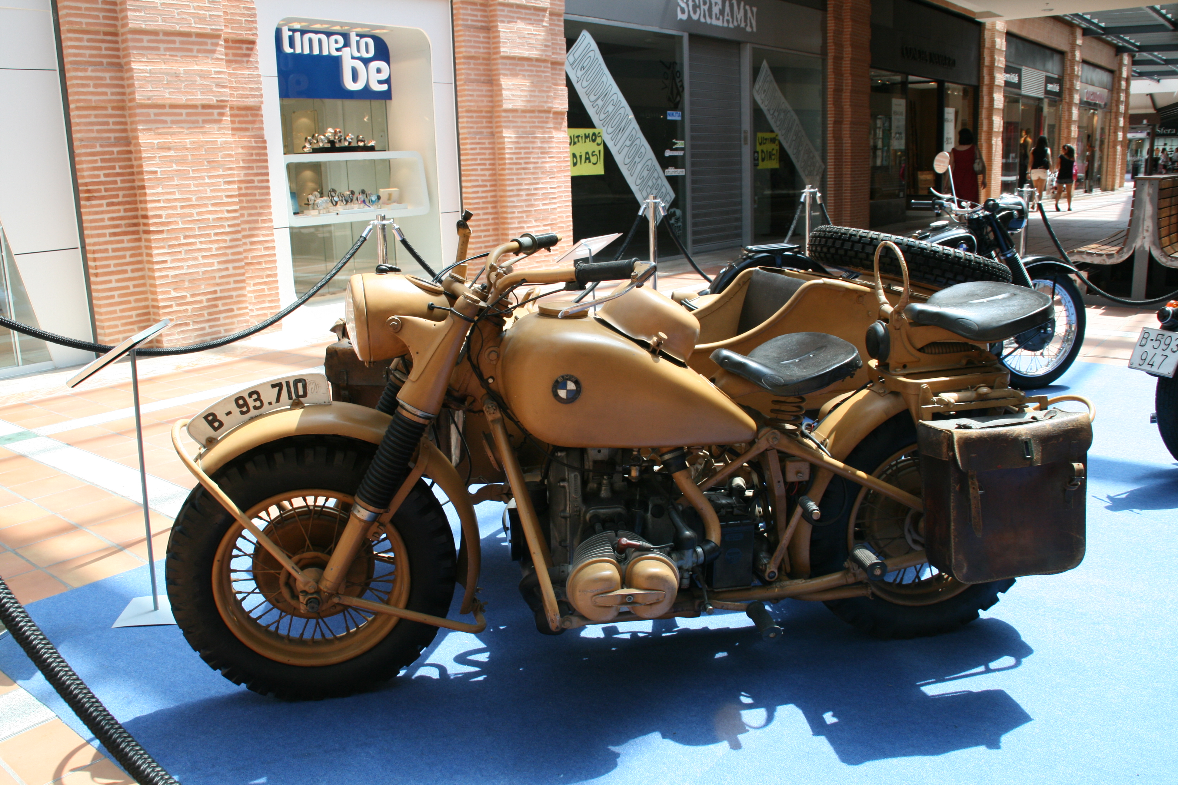 Used by the german army in the World War II